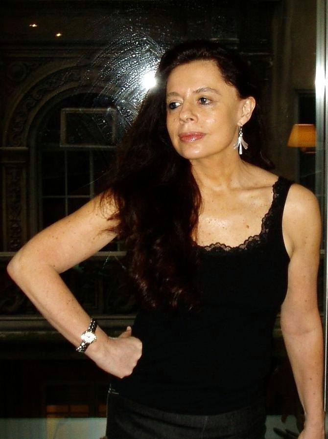 Alicia Borinsky in Buenos Aires